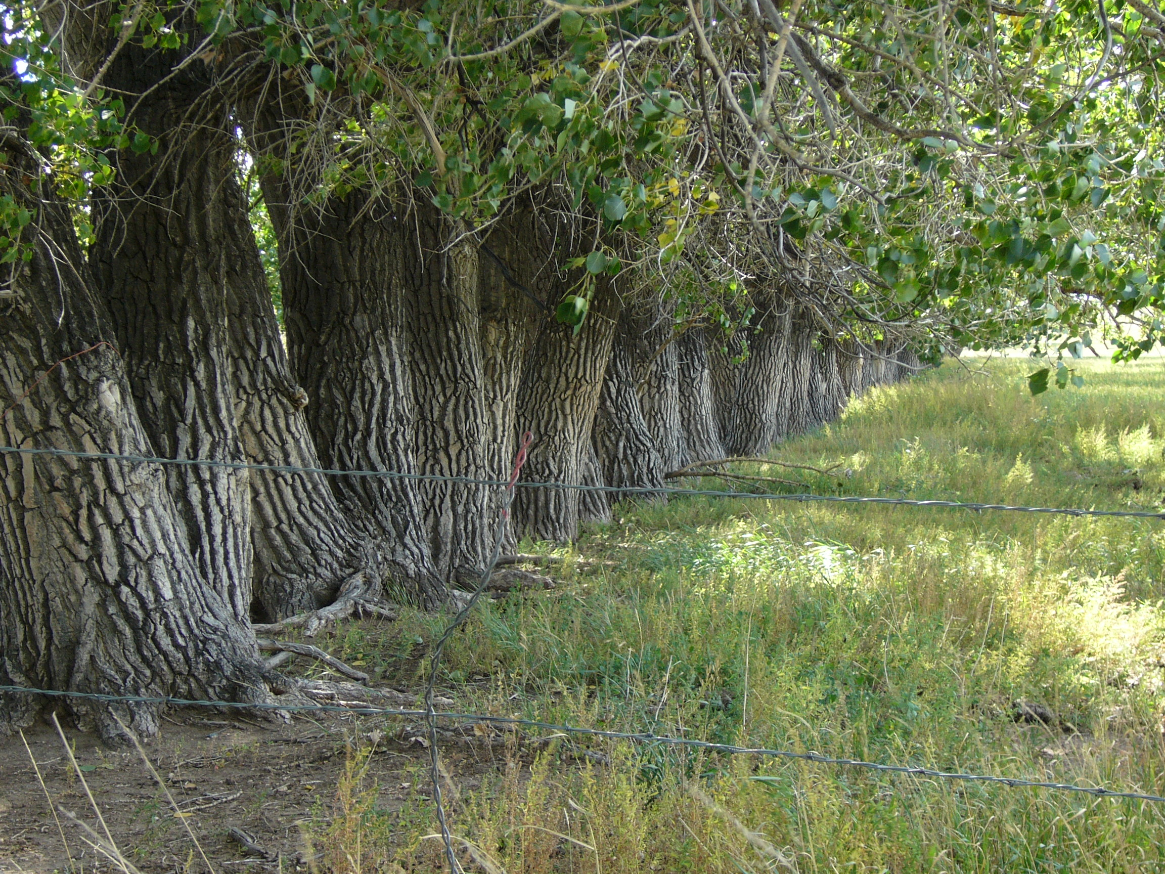 Cotton wood row in "The High Plains Arboretum", near Cheyenne, Wyoming.